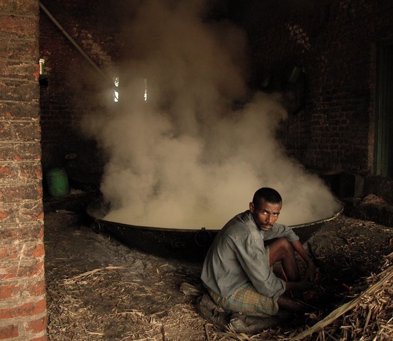 Traditional Jaggery Making Process. Bangalore-Mysore highway, India.